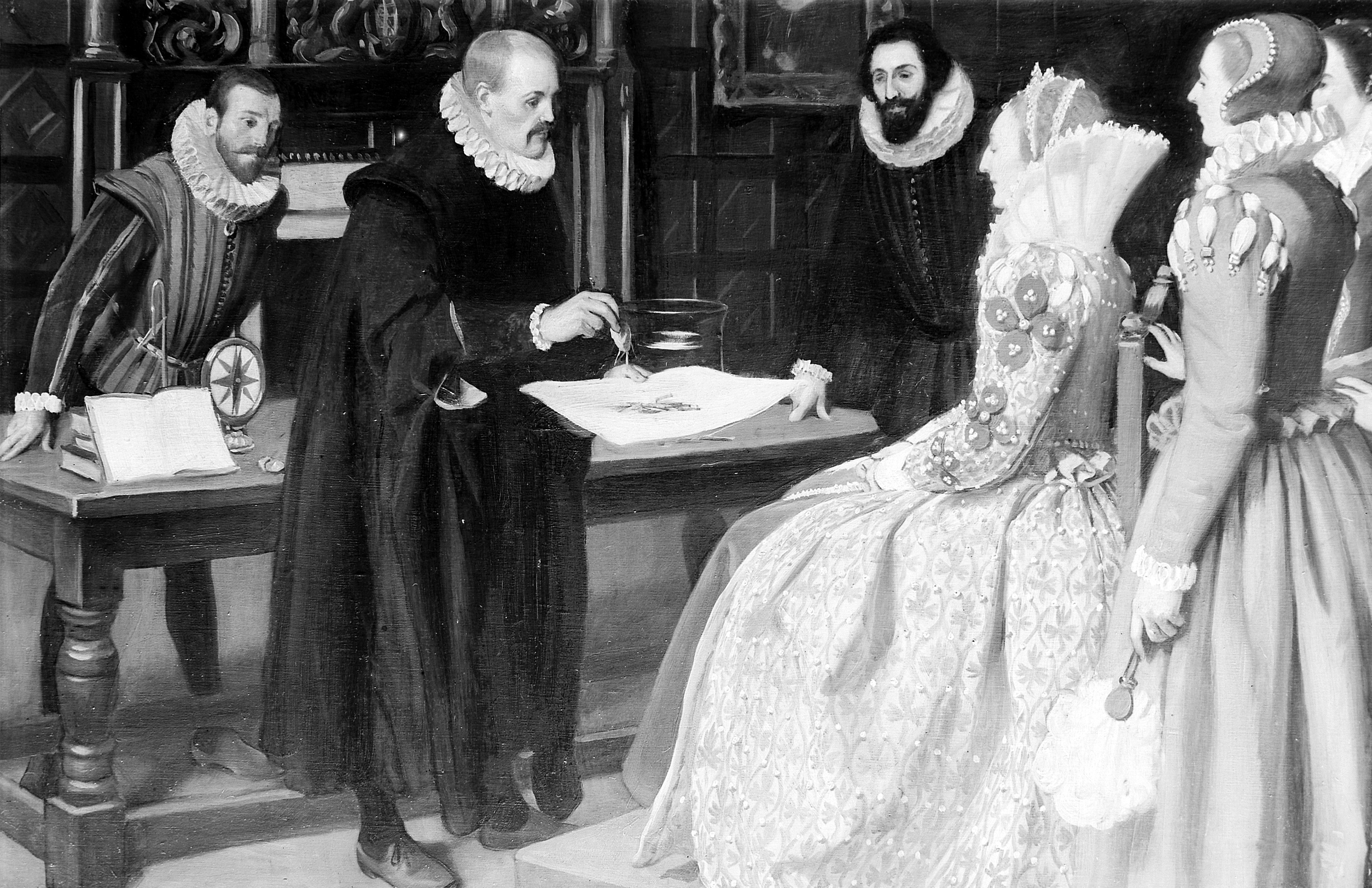 William Gilbert demonstrating the magnet before Queen Elizabeth, 1598. Iconographic Collections Keywords: Ernest Board; Gilbert, William